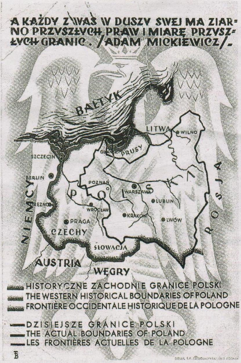 Post cart from Polish Libraries, June 1939, comparing "the actual boundaries of Poland" of the time with "the western historical boundaries of Poland" including Czechoslovakia and large parts of Germany. The quote by Adam Mickiewicz „A każdy z was w duszy swej ma ziarno przyszłych praw i miarę przyszłych granic"“ [1] [2] refers to future frontiers.